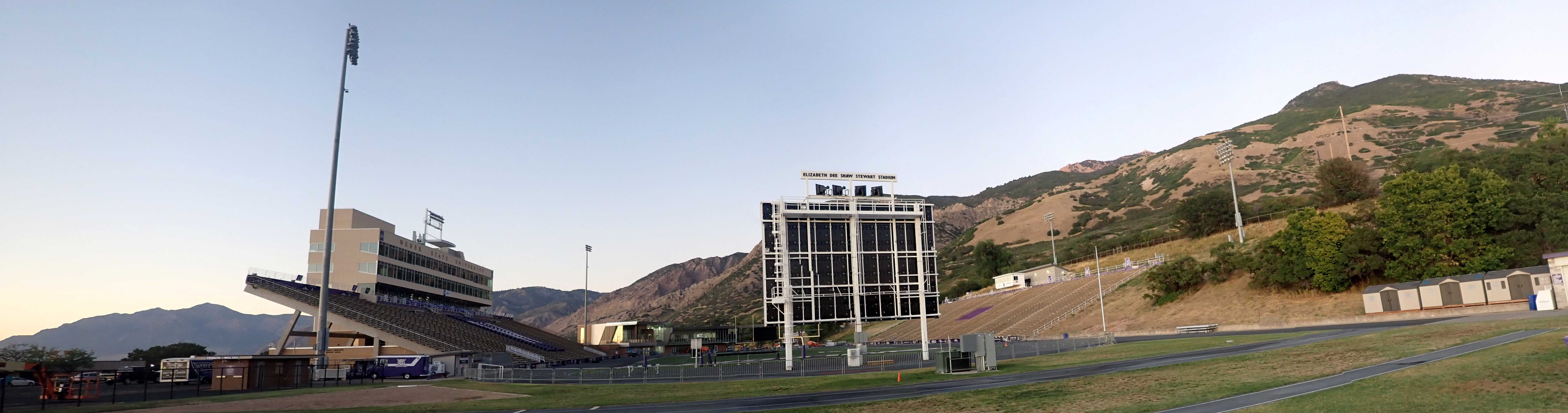 Stadium Weber State University Ogden, Utah, USA